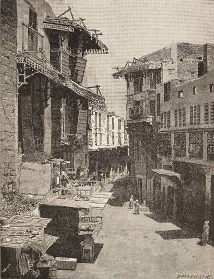 Street in Cairo. This illustration appeared in A Confederate Soldier in Egypt by William W. Loring, published in 1884.